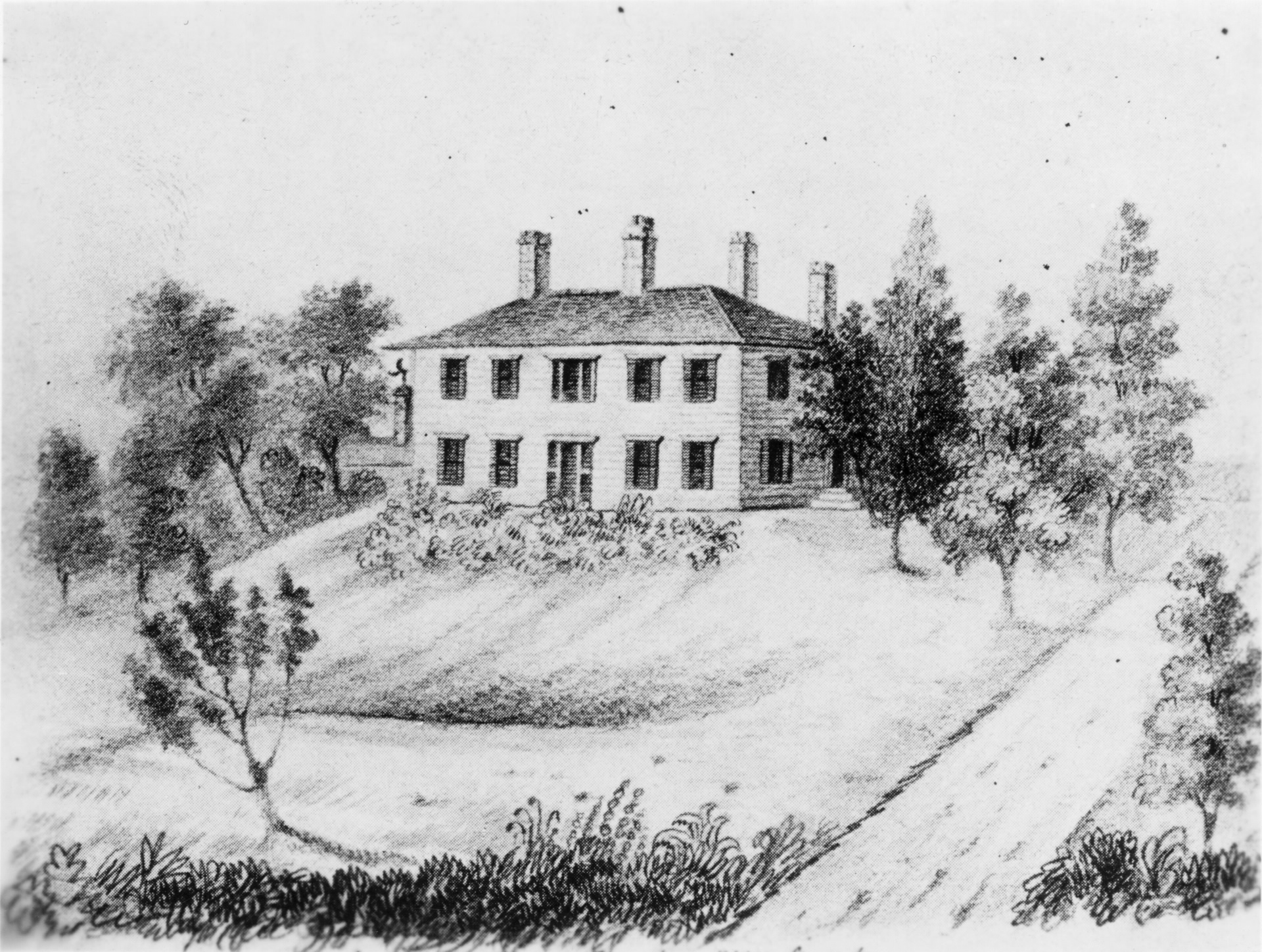 The Second Government House (1815-1860) on Simcoe Street, on the southwest corner with King Street West. The house was built by John Elmsley and became Government House in 1815. Toronto, Ontario, Canada.